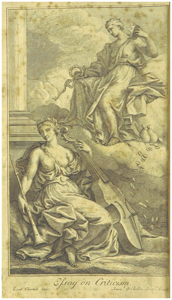 Page 8 of 'An Essay on Criticism ... The sixth edition, corrected'